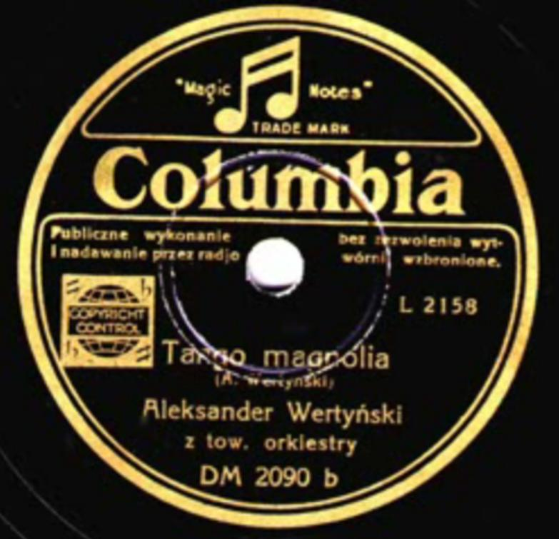 Tango Magnolia, disc of Alexander Vertinsky